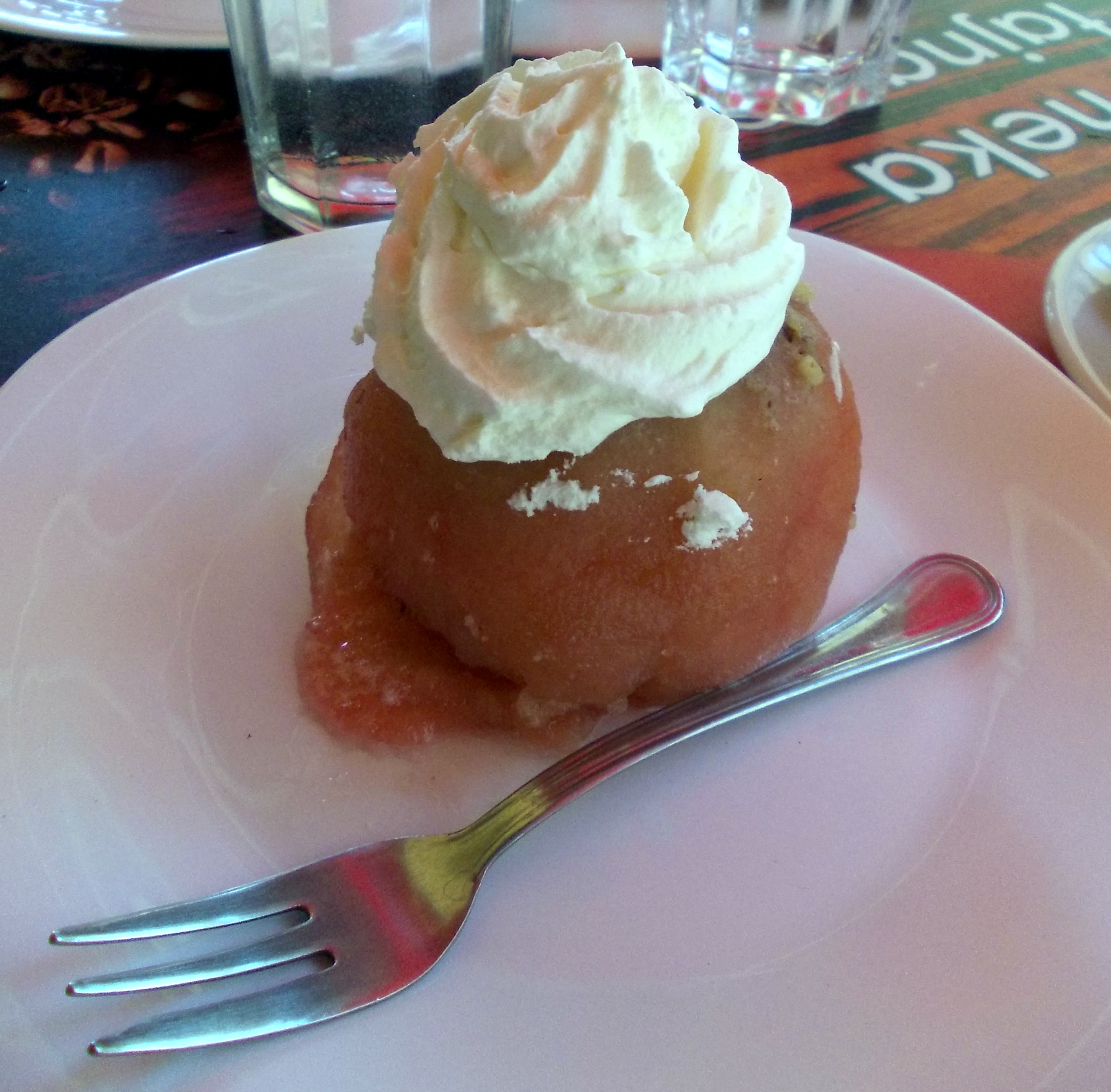 Tufahija (in cake shop in Mostar, Bosnia and Herzegovina)